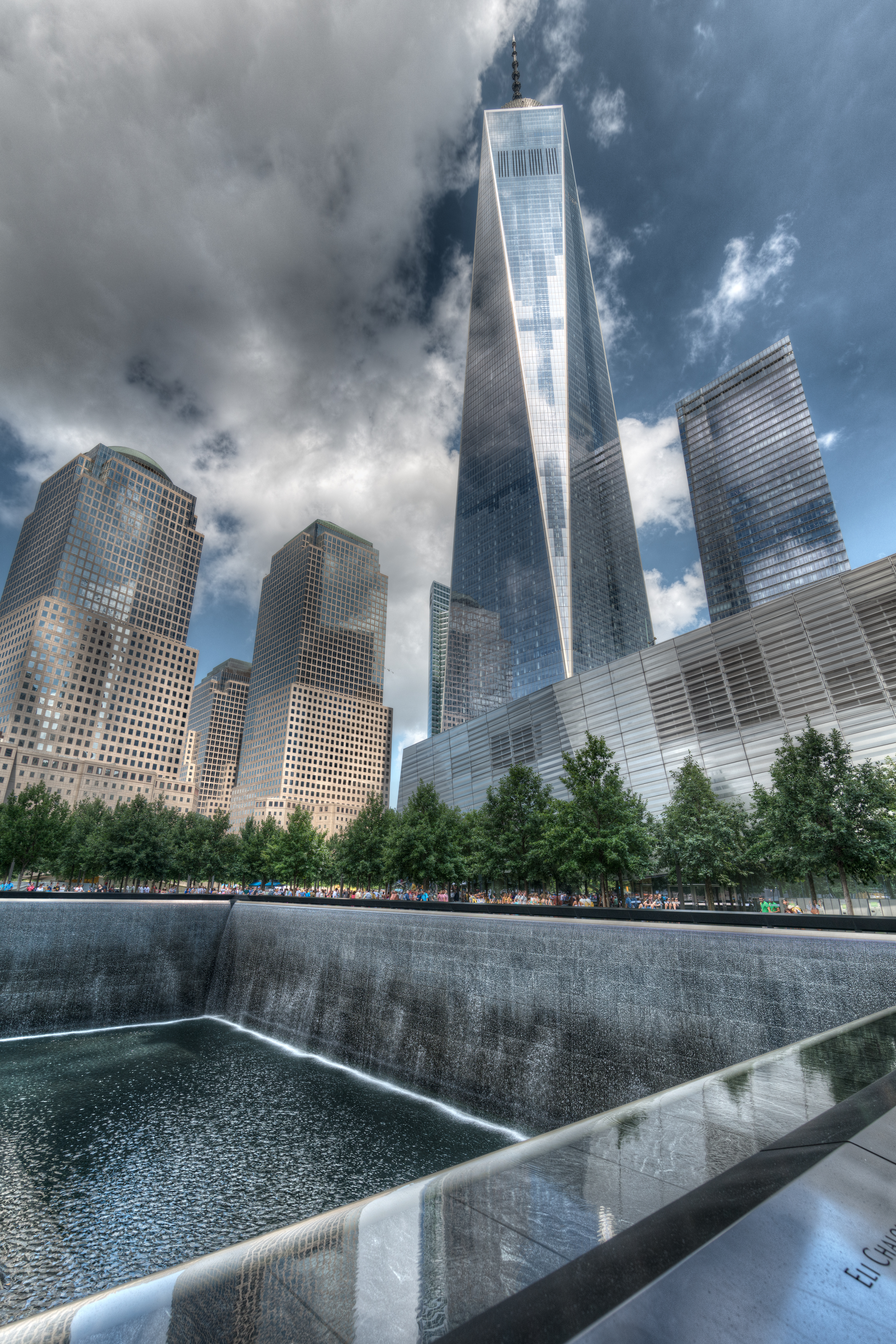 One World Trade Center - New York, NY, USA